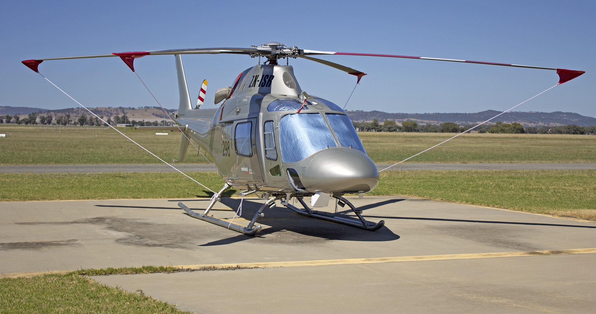 AgustaWestland AW119 Koala Ke (ZK-ISR) at the Wagga Wagga Airport heli-pad.